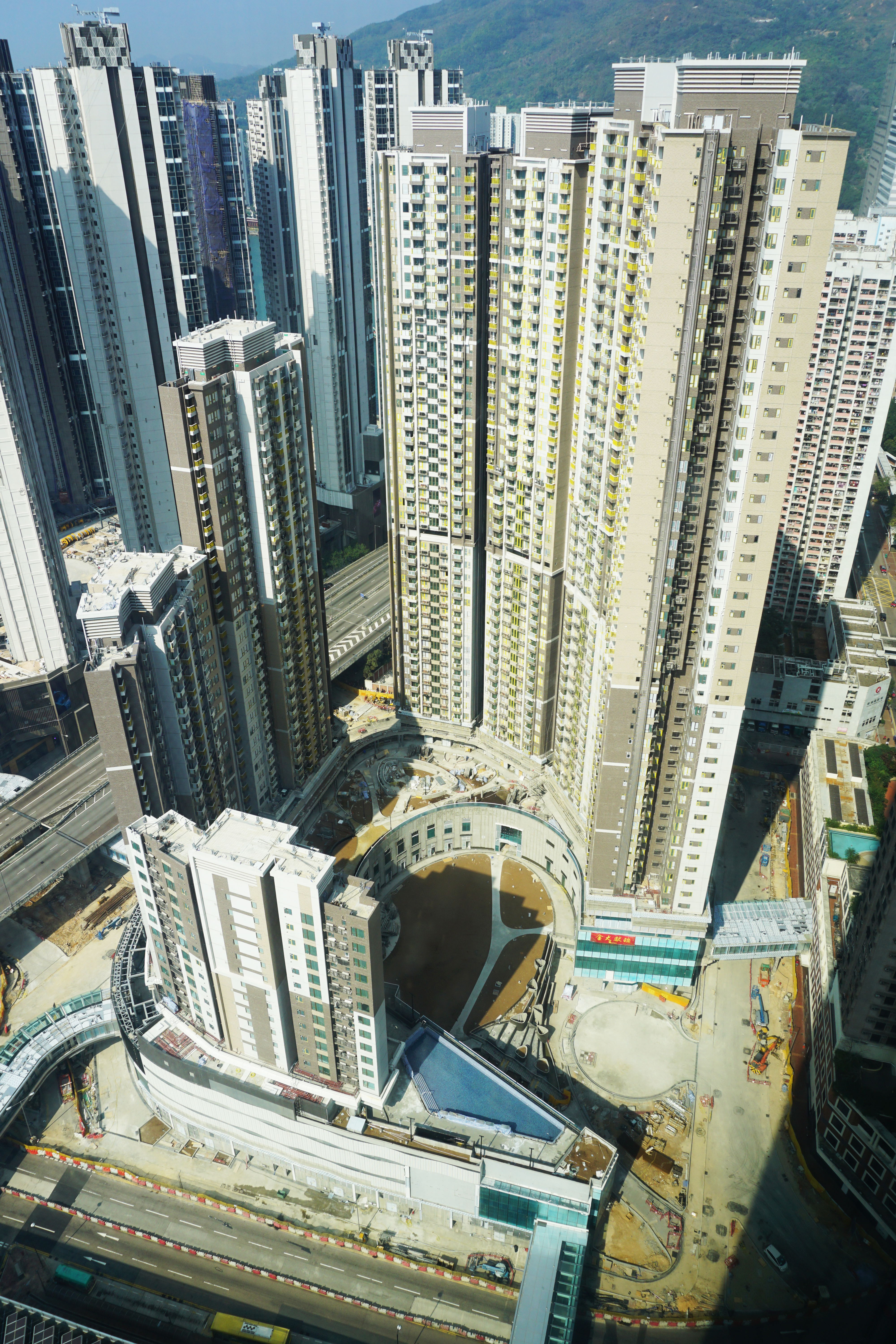 Parc City in Tsuen Wan, Hong Kong.